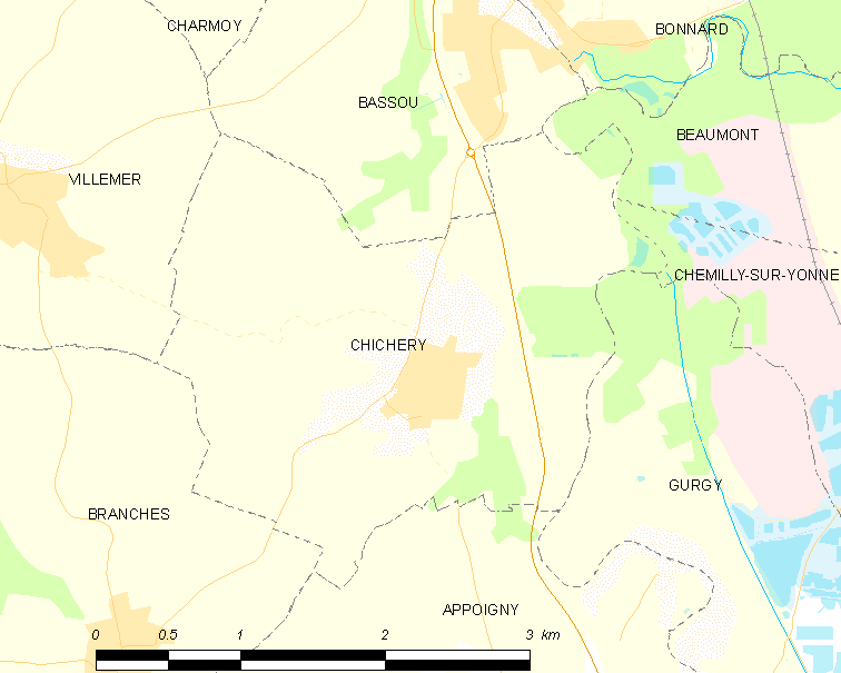 Map of French municipality Chichery